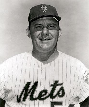 Image cropped from a baseball card of Rube Walker from the 1971 New York Mets 8x10 Photos set.